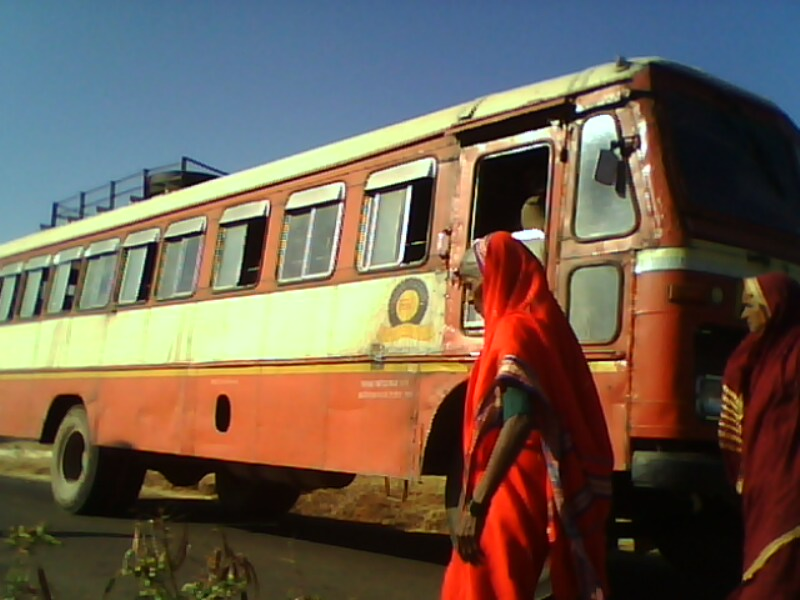 The old MSRTC bus Side view (Woman walking beside the bus is visible)